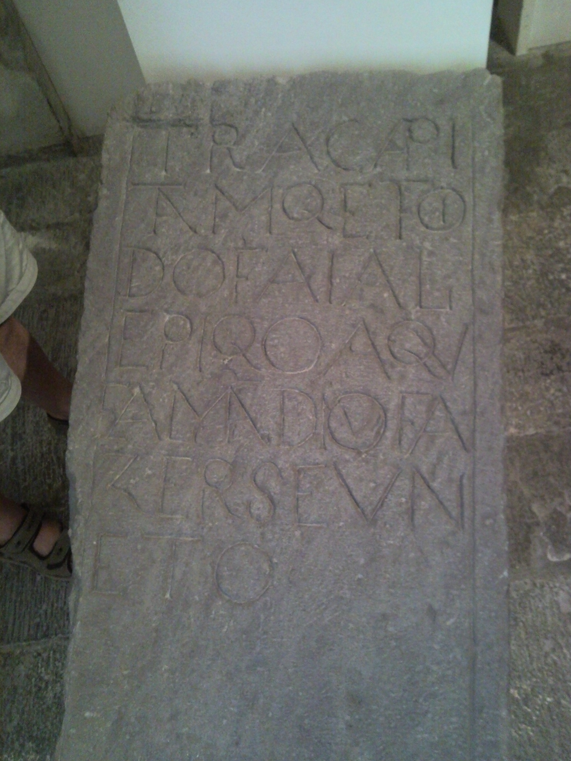 The gravestone of Josse Van Huertere, the Flemish-born Captain-Donatário of the island of Faial, in the Museum of Horta, muncipality of Horta (Azores), Portugal